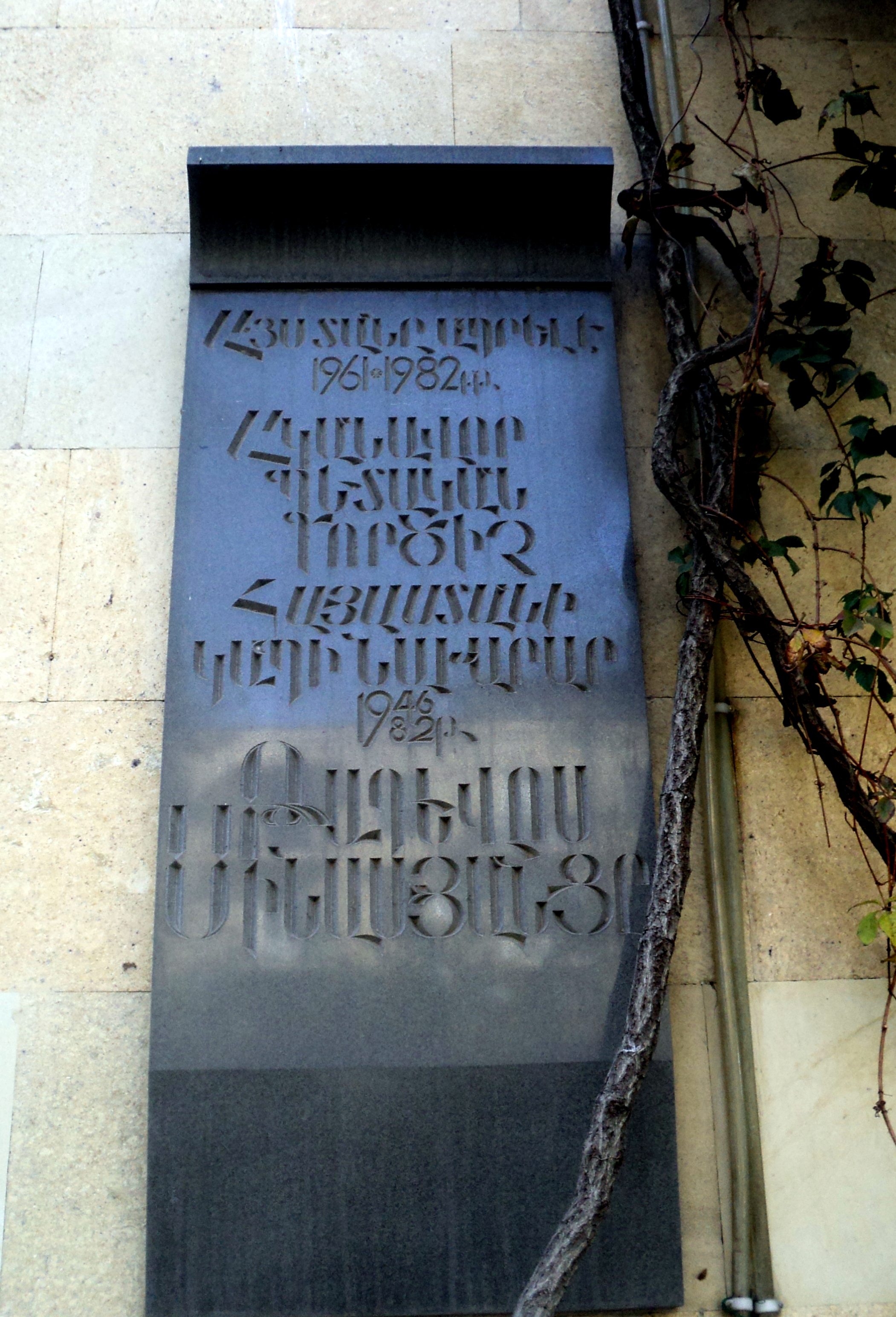 Թադևոս Մինասյանցի հուշատախտակը Երևանում